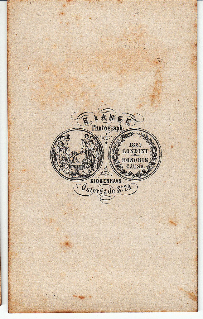 Logo of E. Lange's studio with medal won at the World's Fair in London, after 1862 and no later than 1863